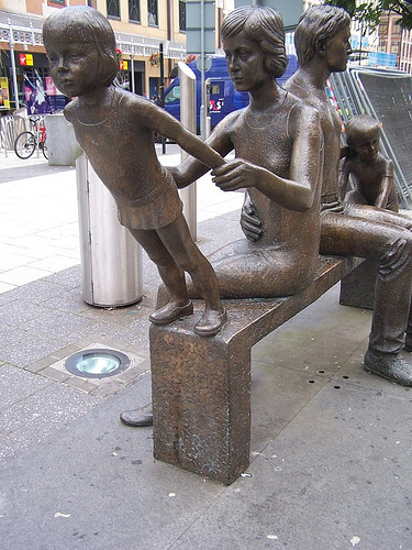 The Family sculpture by Robert Thomas, Cardiff Queen Street The Family sculpture by Robert Thomas, Cardiff Queen Street